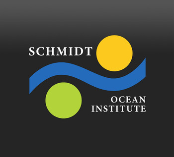 Schmidt Ocean Institue logo.